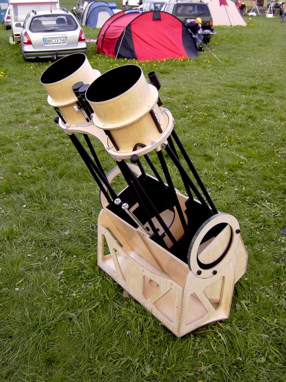 Newtonian telescope - homemade binocular Dobsonian - mirror dia: 8 3/4" (22.2 cm) each. Venue: VTT 2005, i.e. Vogelsberg Teleskop-Treffen 2005 (Germany).